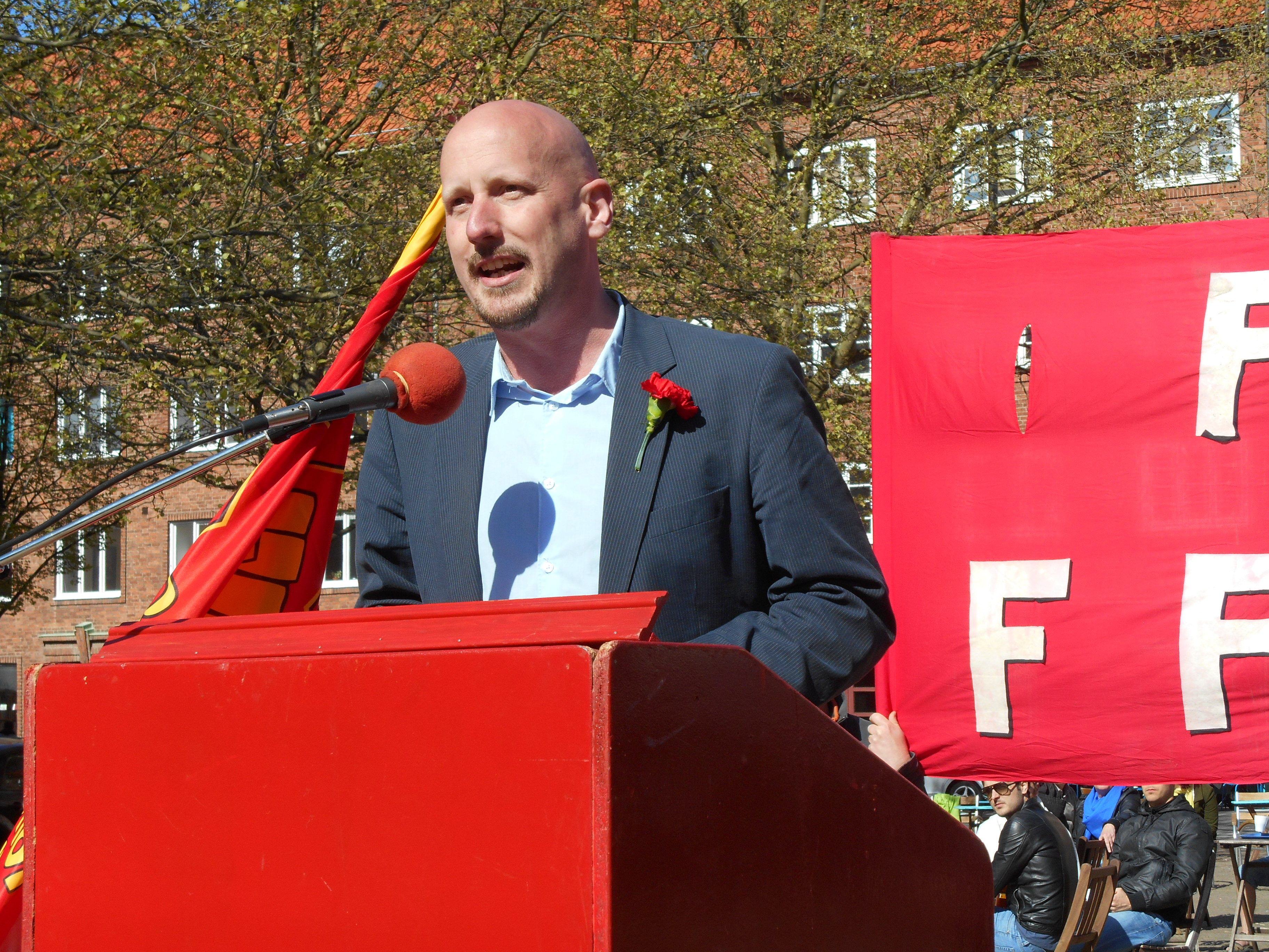 Chairman of Kommunistiska Partiet (Communist Party) in Sweden.